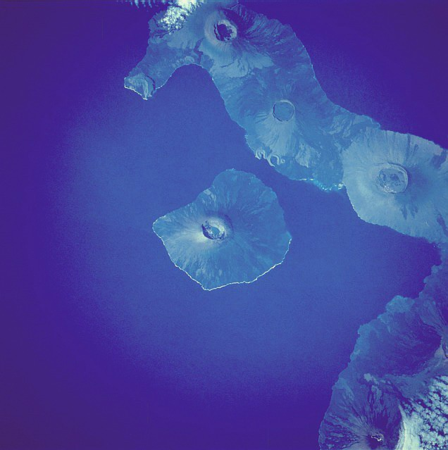 Fernandina Island and Isabela Island, Galápagos, Ecuador - October 1985